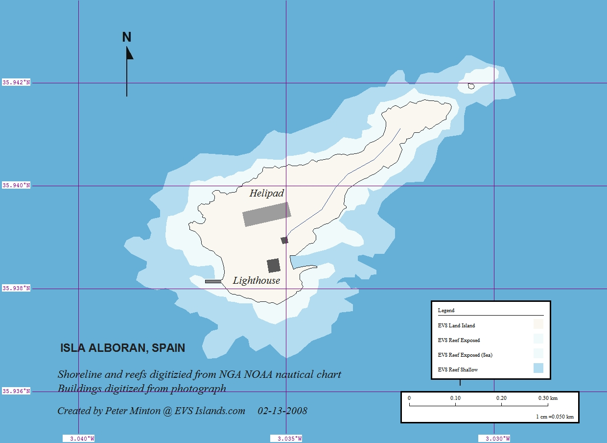 Map of Alboran Island, Almería, Spain